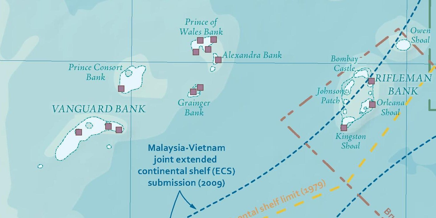 Vanguard Bank cropped from Department of State map 2016587286 (2015)